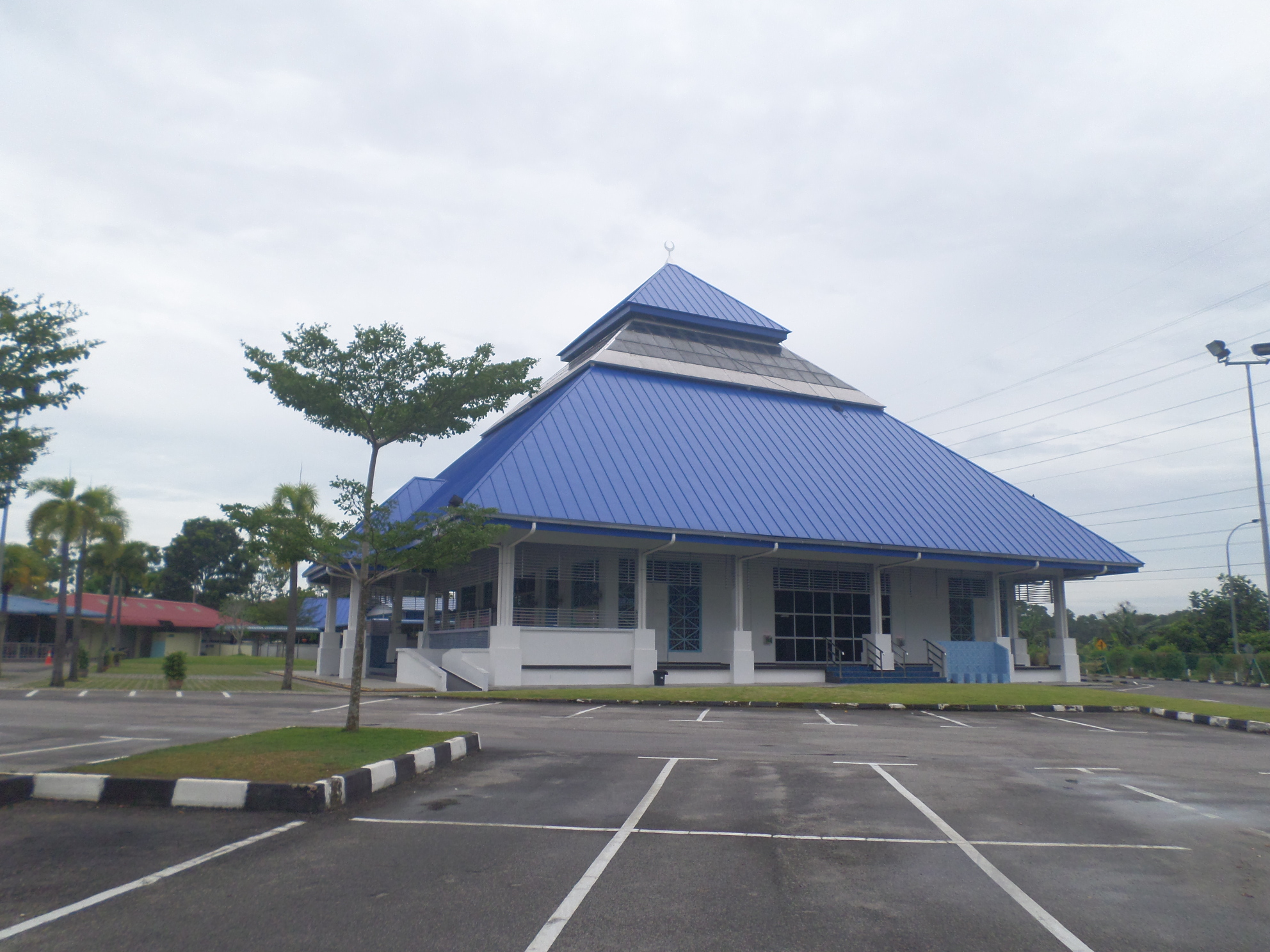 Bukit Indah Mosque, Bukit Indah, Iskandar Puteri, Johor Bahru, Johor, Malaysia